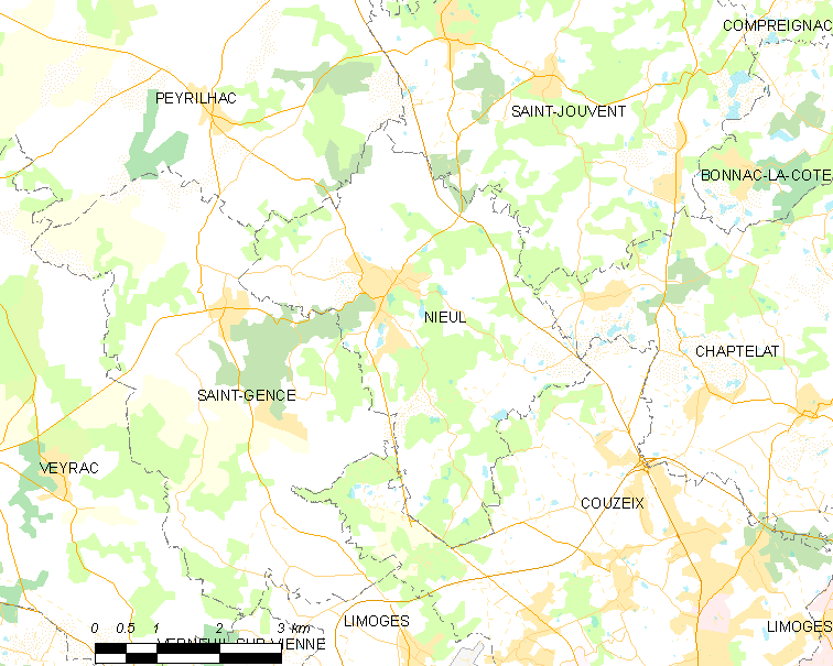 Map of French municipality Nieul